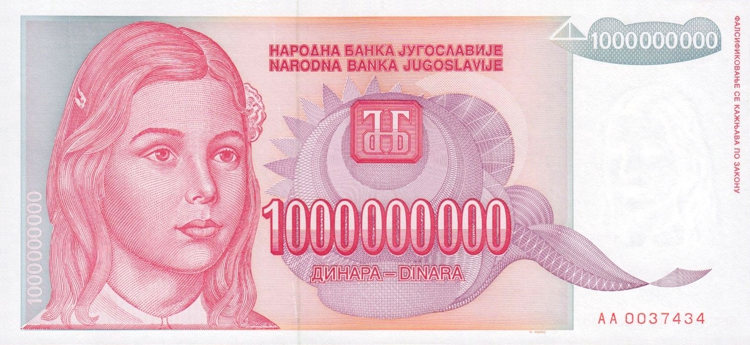 1000000000 Yugoslav dinars (1993)